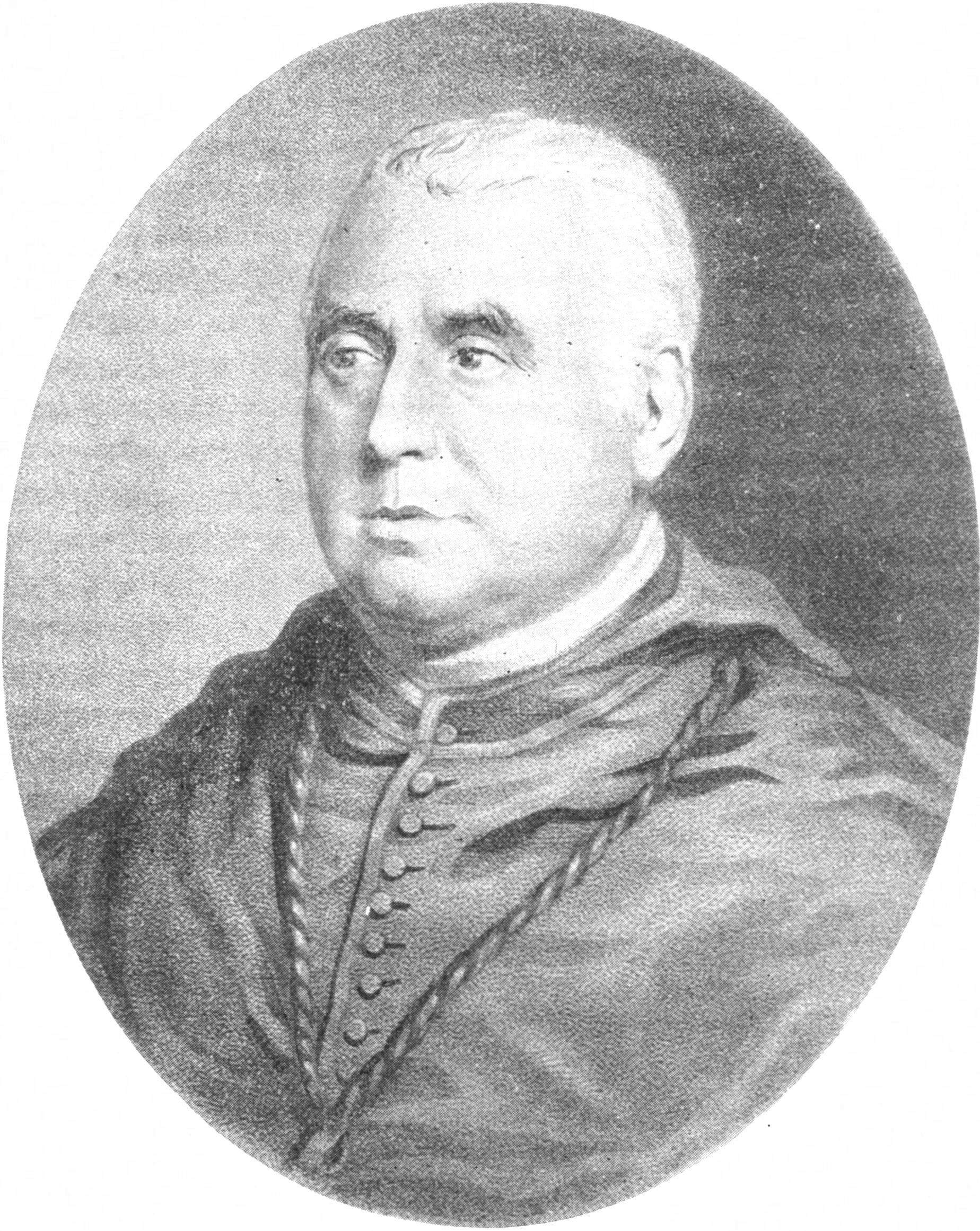 Dr. James Yorke Bramston; p. 97 Historical accounts of Lisbon college Identified as both James and John in the work. Use of John is presumably either in error, or part of church naming